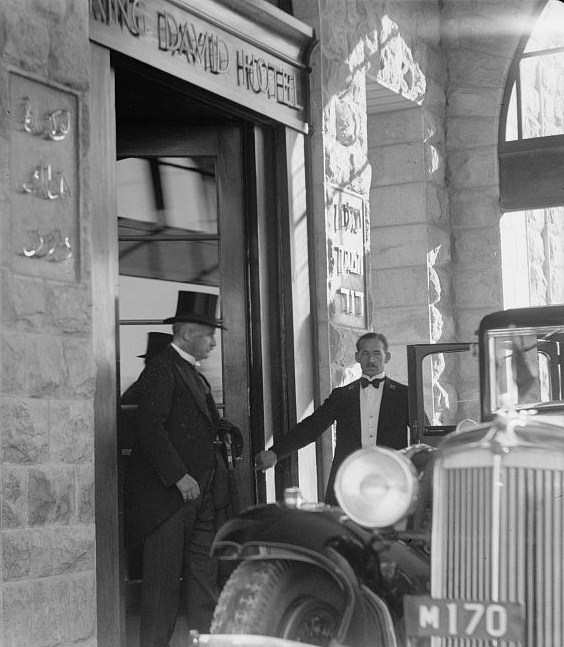 Palestine disturbances 1936. Earl Peel entering his car from main entrance of King David Hotel for his official drive to the Government House for the opening ceremony